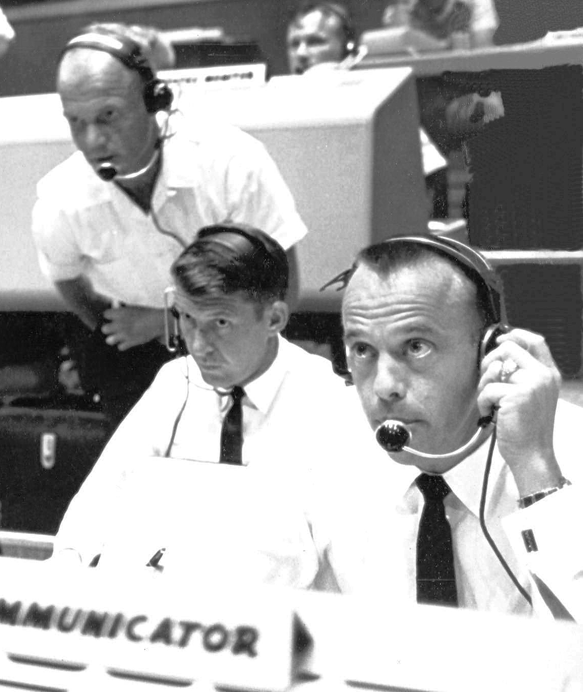 In Mercury Mission Control, Alan Shepard communicates with Gus Grissom aboard Liberty Bell 7 during the second manned flight of Project Mercury. Looking on are fellow Mercury Seven astronauts John Glenn and Wally Schirra.